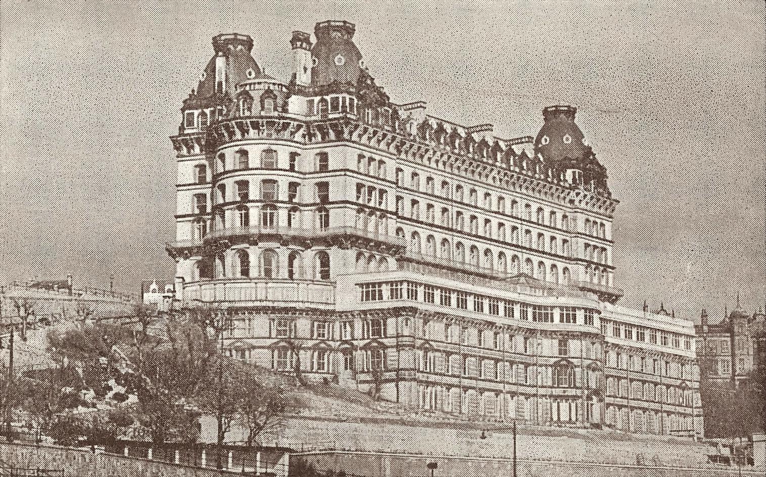 1921 postcard of the Grand Hotel, Scarborough, Yorkshire, England. It was designed by Cuthbert Brodrick and opened in 1867. The exterior carving was executed by Benjamin Burstall and Matthew Taylor of Leeds.